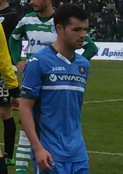 Spanish footballer Miguel Bedoya